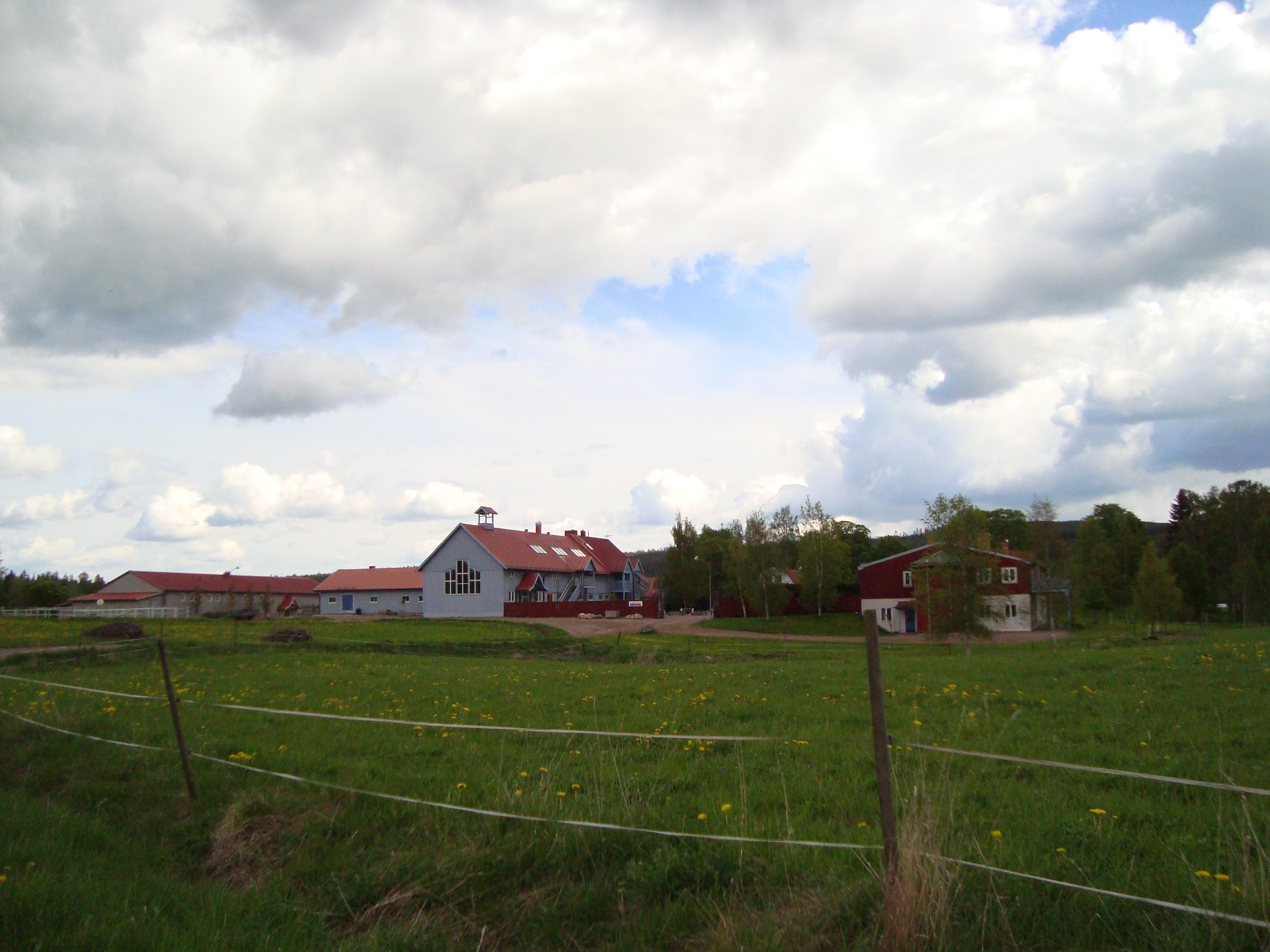 Dormsjöskolan, Dormsjö, Hedemora municipality, Sweden